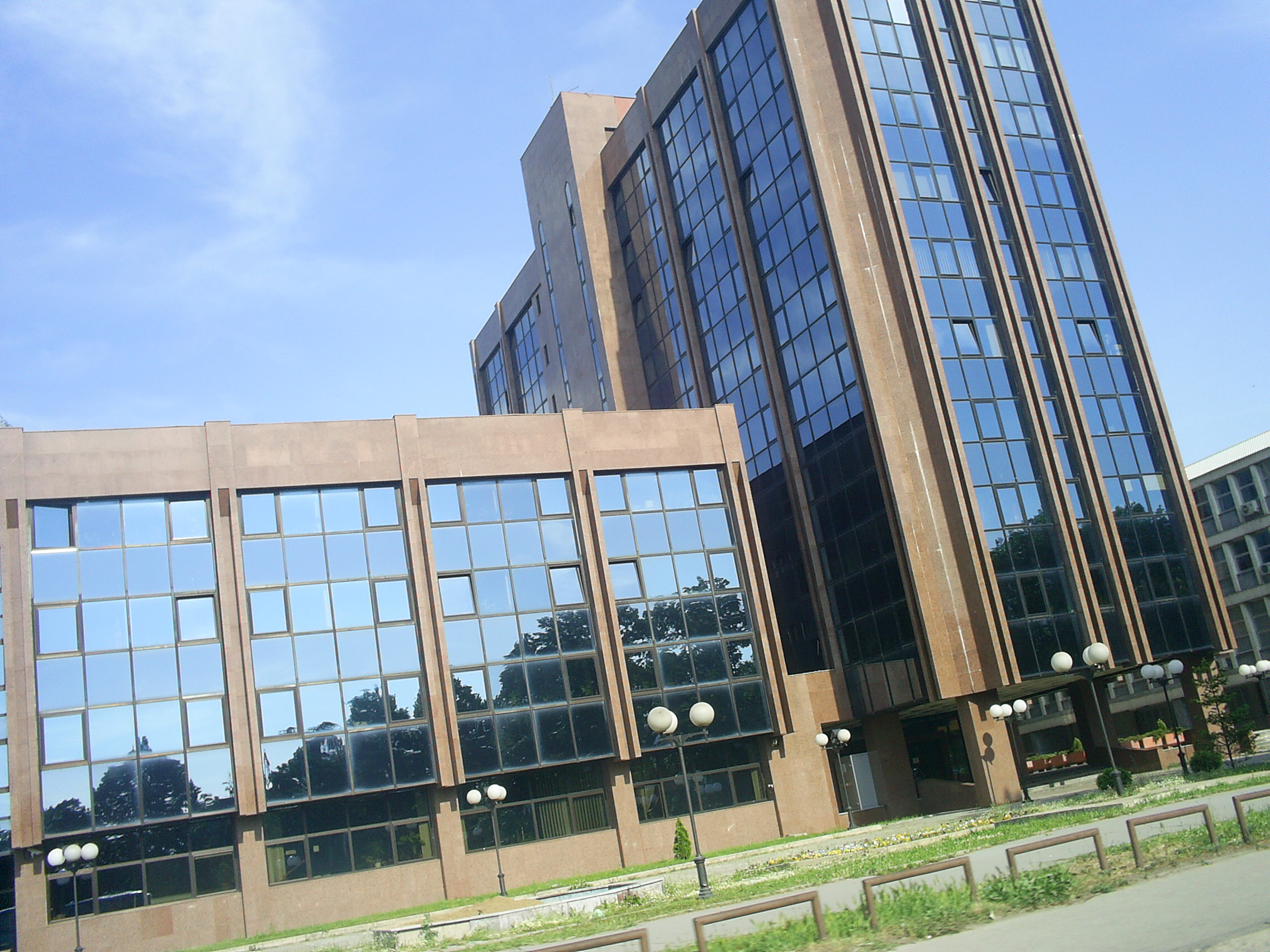 A modern building in Skopje